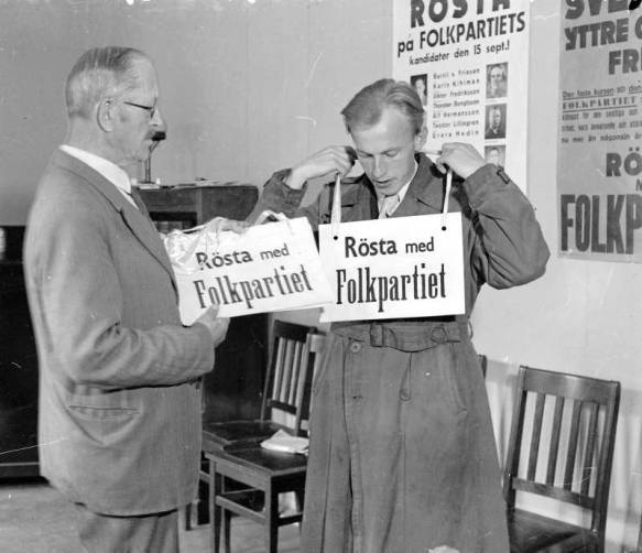 Election activists of the People's Party, Swedish general election 1940